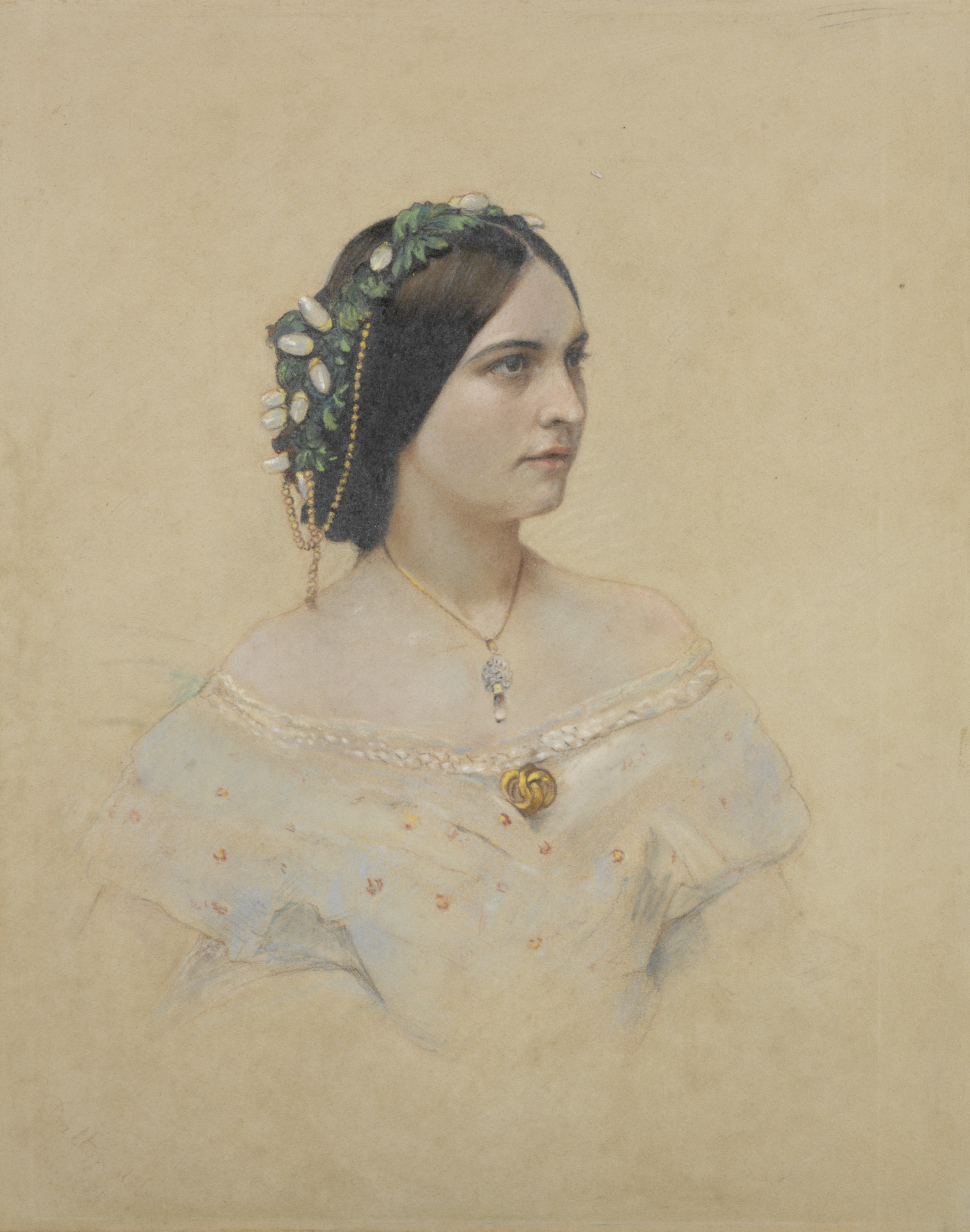 Mrs Frances Jones, studio portrait, Sydney, 1859, by Edward Dalton, crayotype, State Library of New south Wales, ML 1344 Presented to the Library May 1949. Transfer from P2/147, May 2004.